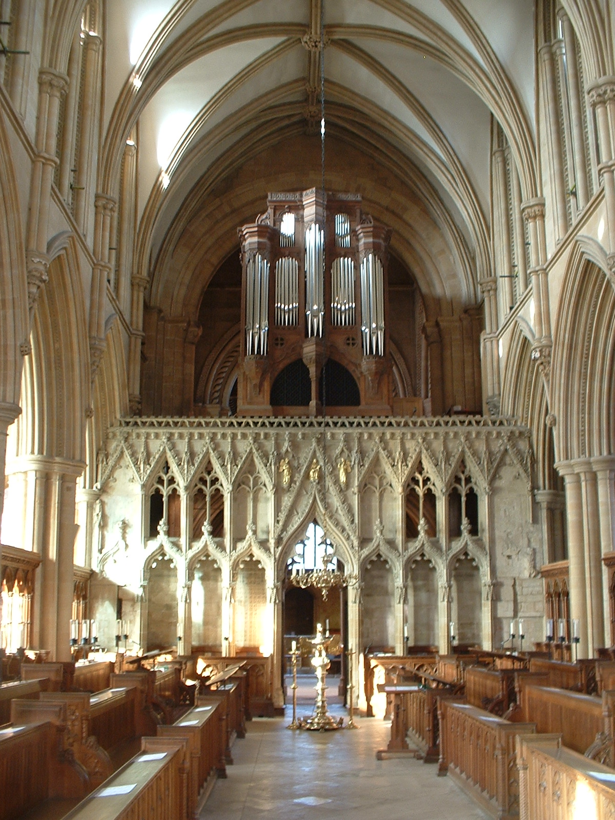 The carved pulpitum at Southwell Minster, Nottinghamshire. Taken by Necrothesp, 25 October 2005.